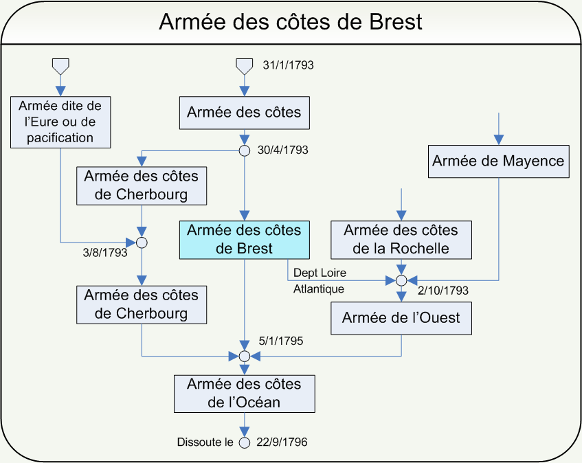 Chronology of the "Armée des côtes de Brest" (Army of the French Revolution)